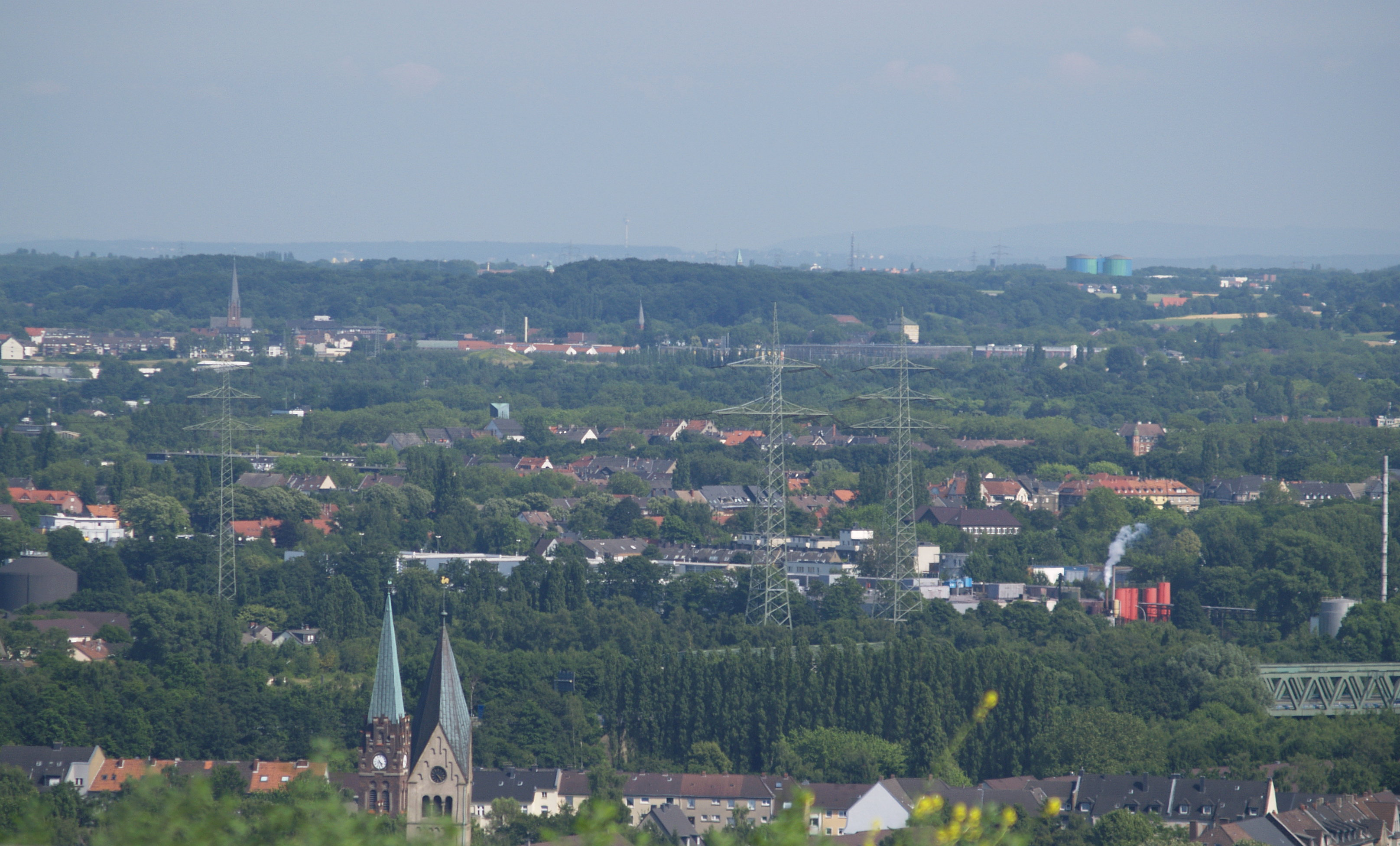 View from Halde Hoheward to Herne